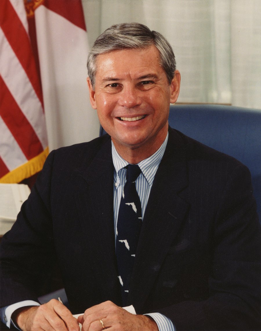 Bob Graham, former member of the United States Senate.